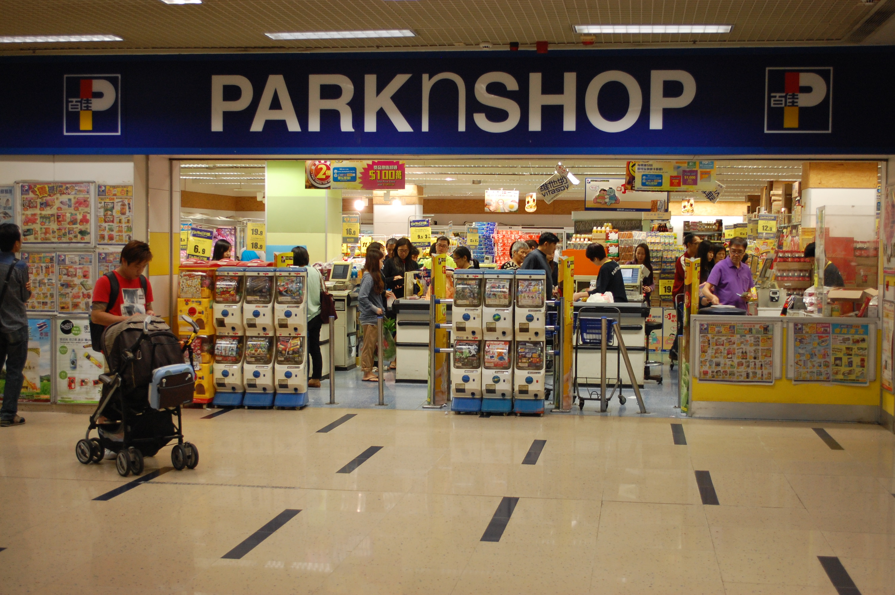 PARKnSHOP in Fu Cheong Shopping Centre.